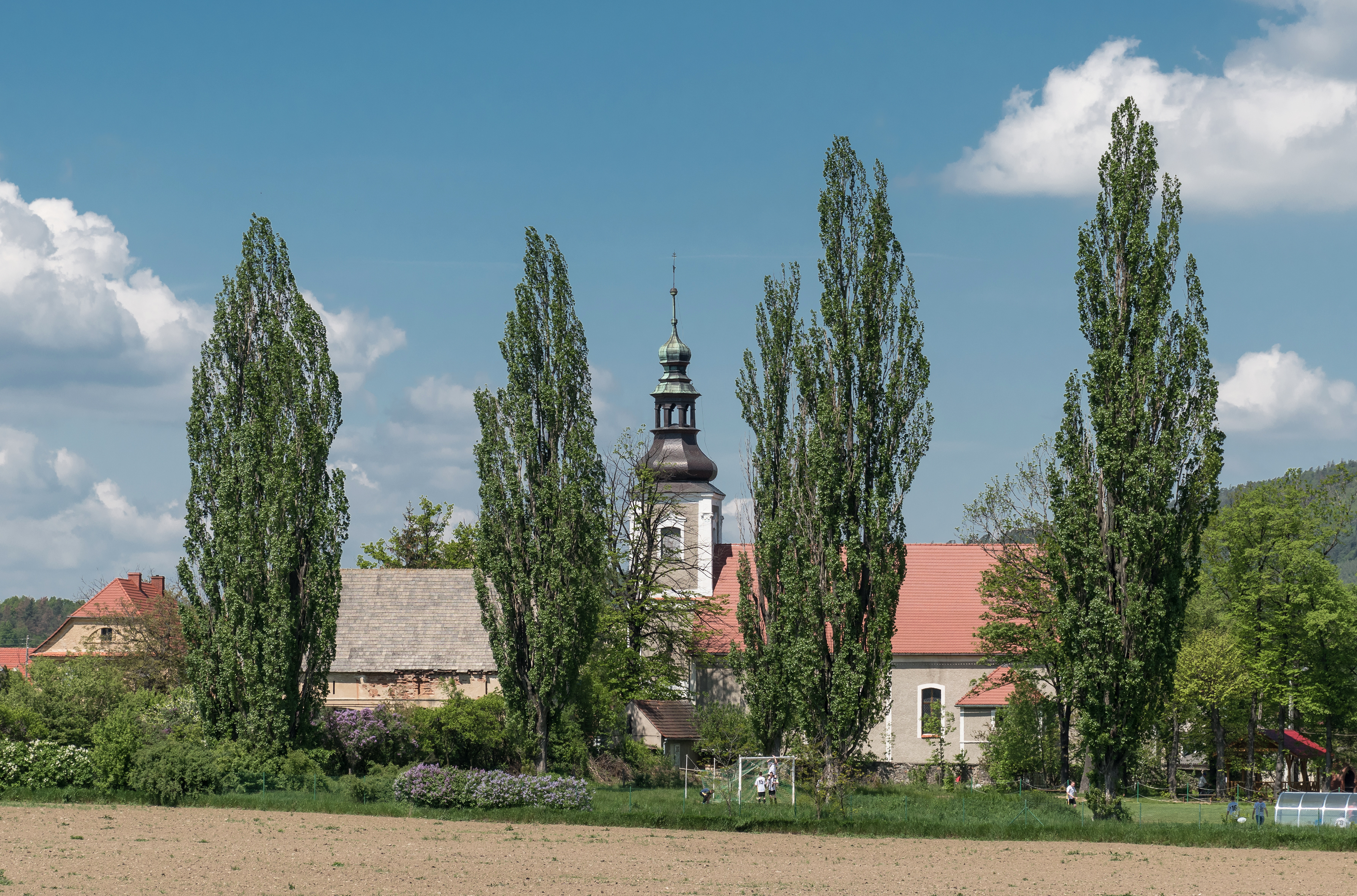 Saint Nicholas church in Brzeźnica